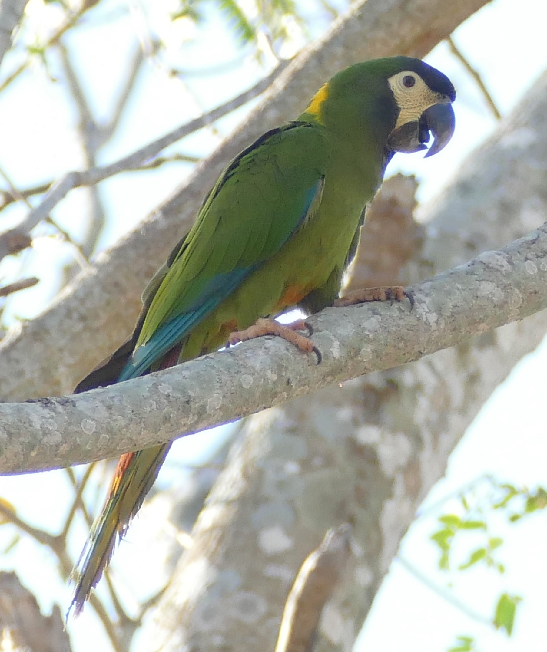 Pousada Portal Paraiso, Transpantaneira, Poconé, Mato Grosso, BRAZIL